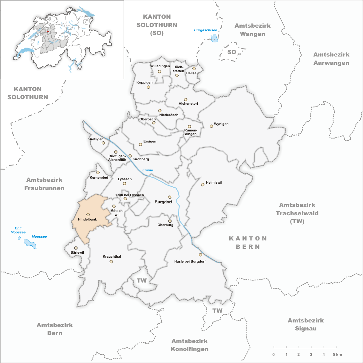 Municipality Hindelbank